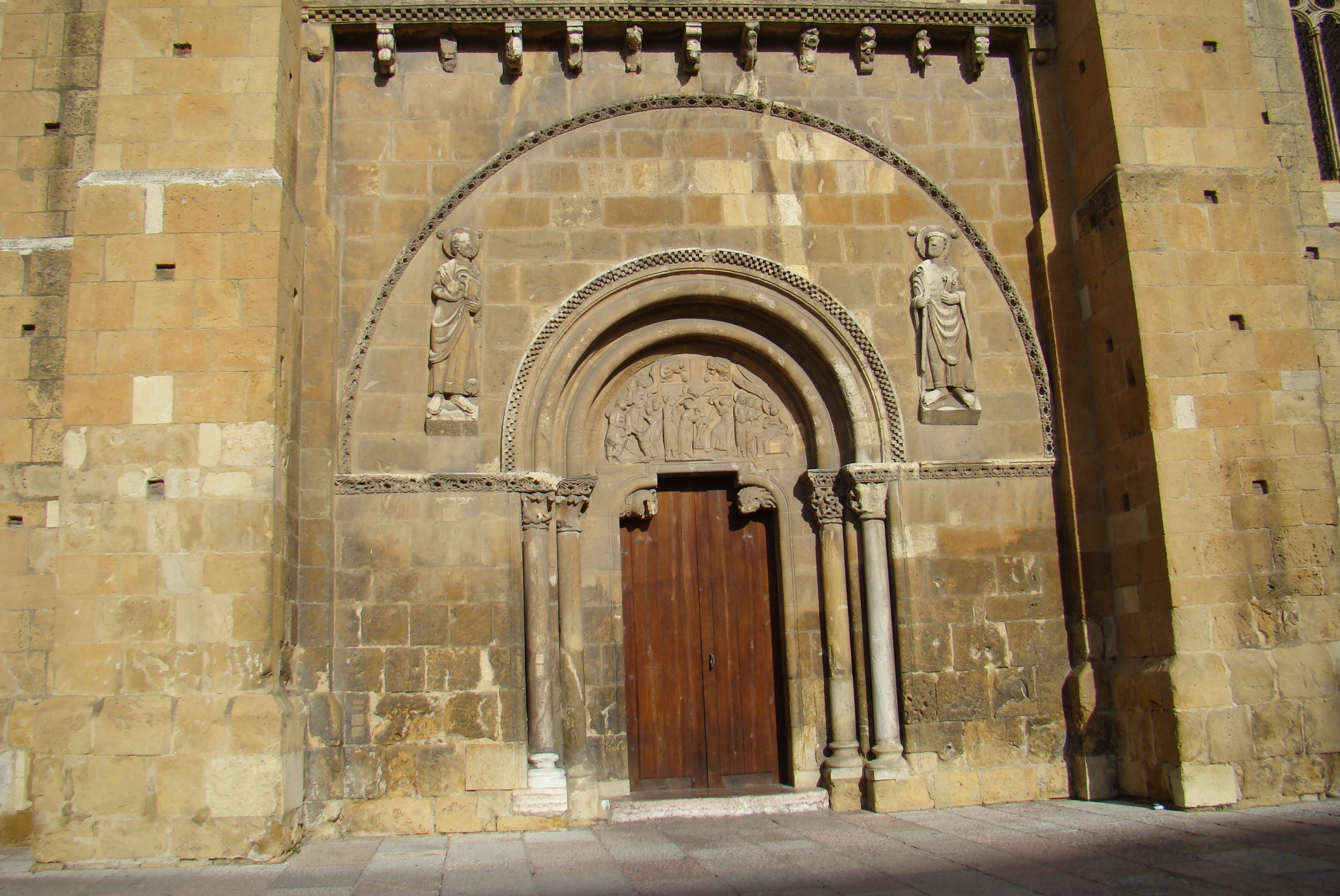 Romanesque basilica of San Isidoro in León, Spain. Romanesque gate of the forgiveness at the south facade. On the spandrels, the figures of Saint Paul (on the left) and Saint Peter.